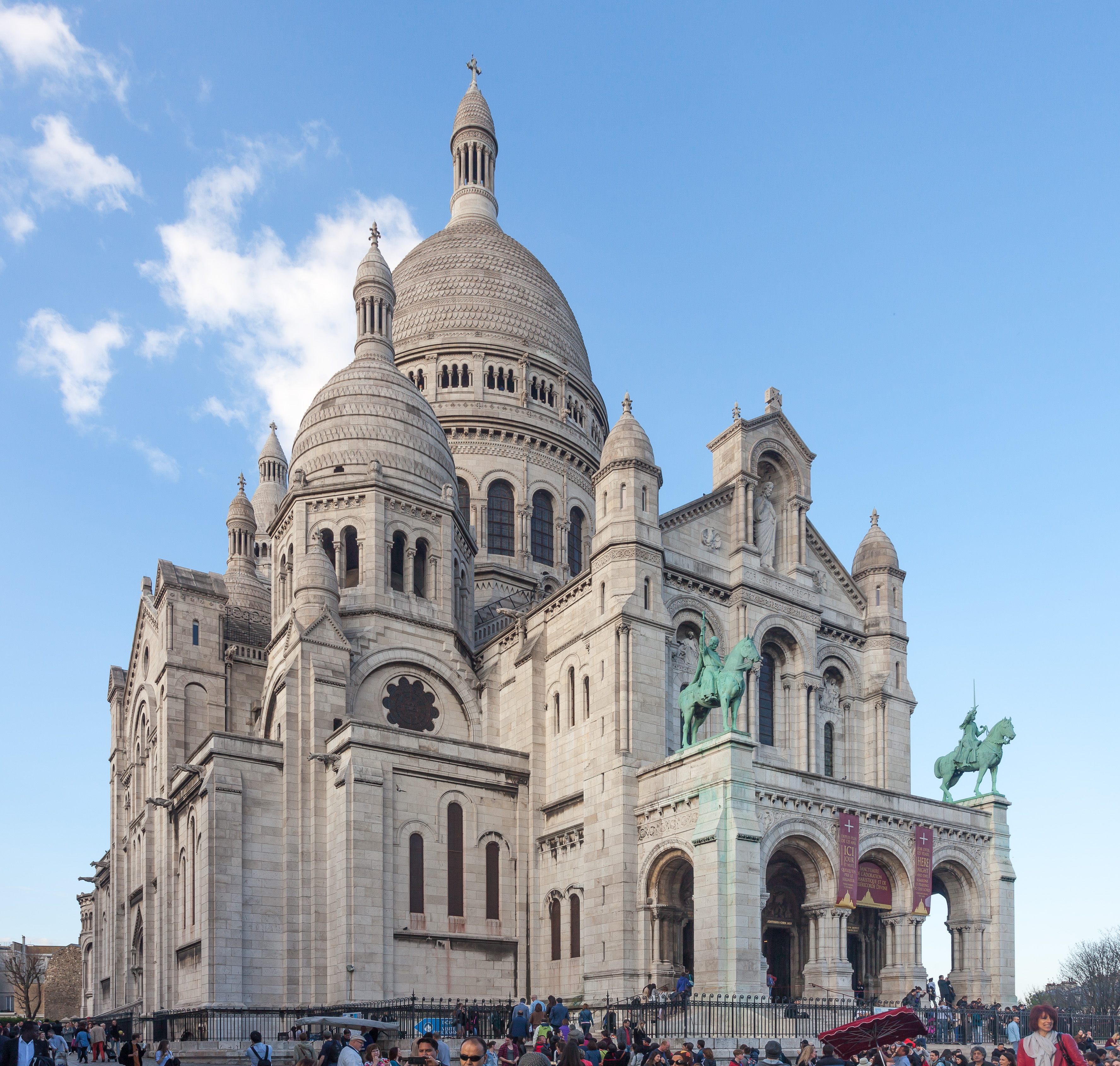 Sacré-Cœur de Montmartre. Paris.